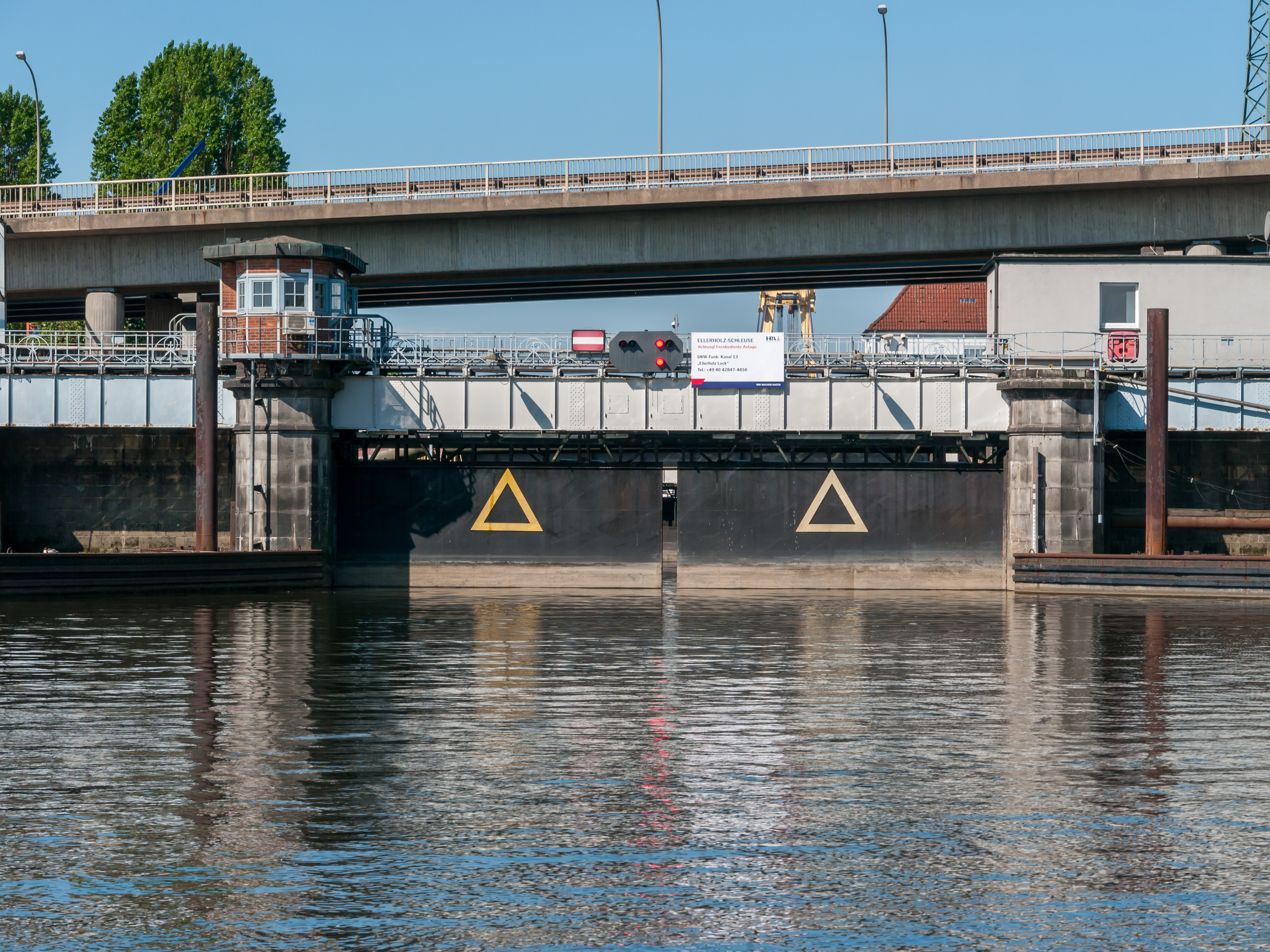 Wikipedia Ahoi in Hamburg 2019